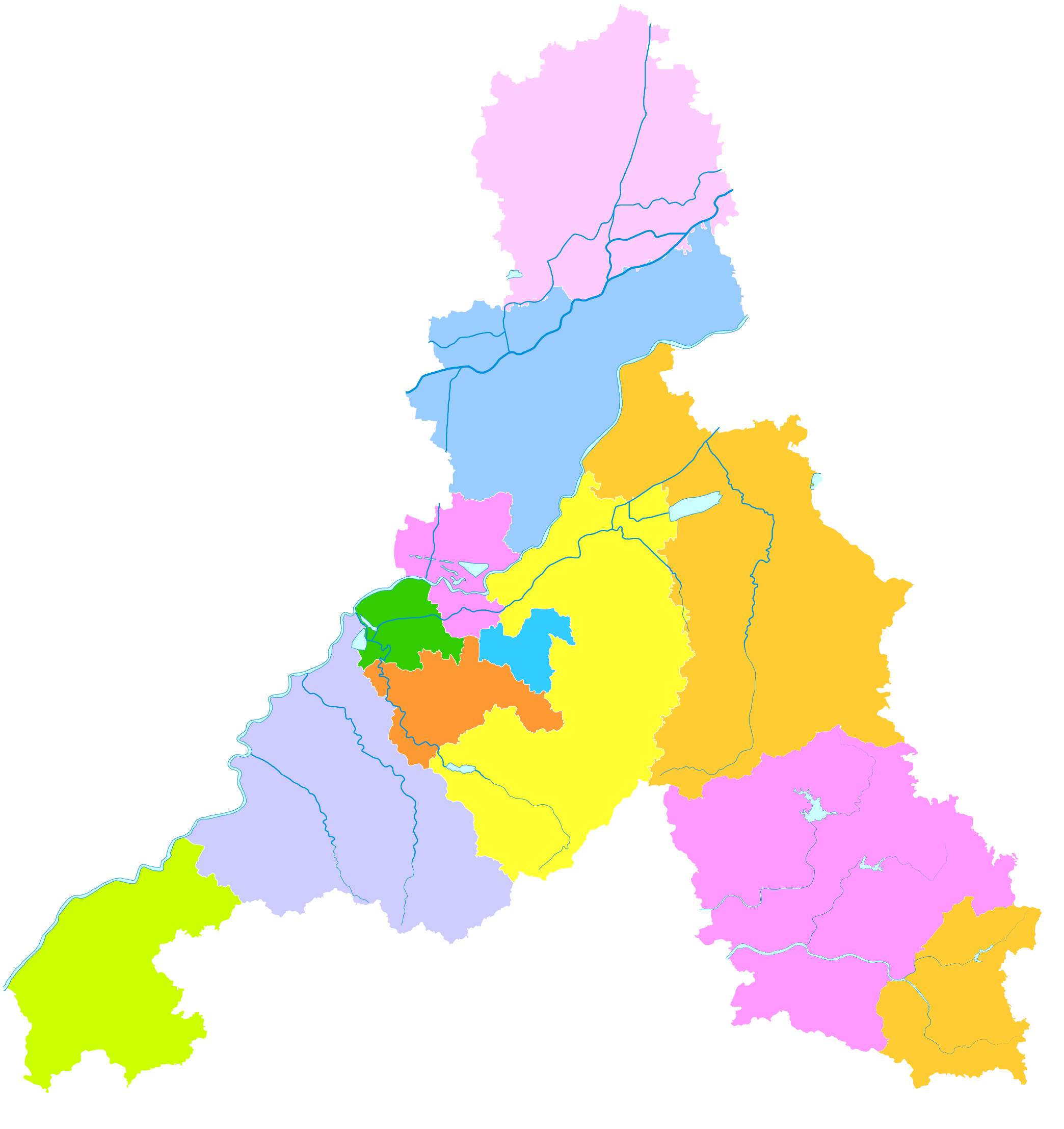 administrative division of Jinan City, Shandong, China (2019)